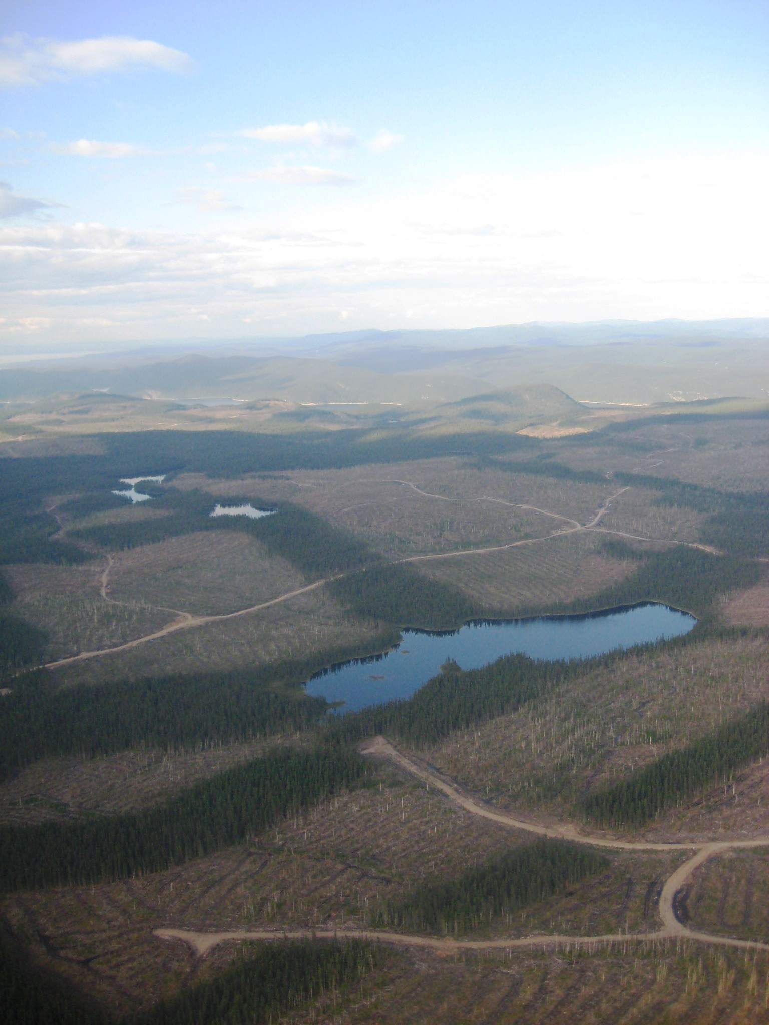 Overview of cuts made by Kruger on René-Levasseur Island.